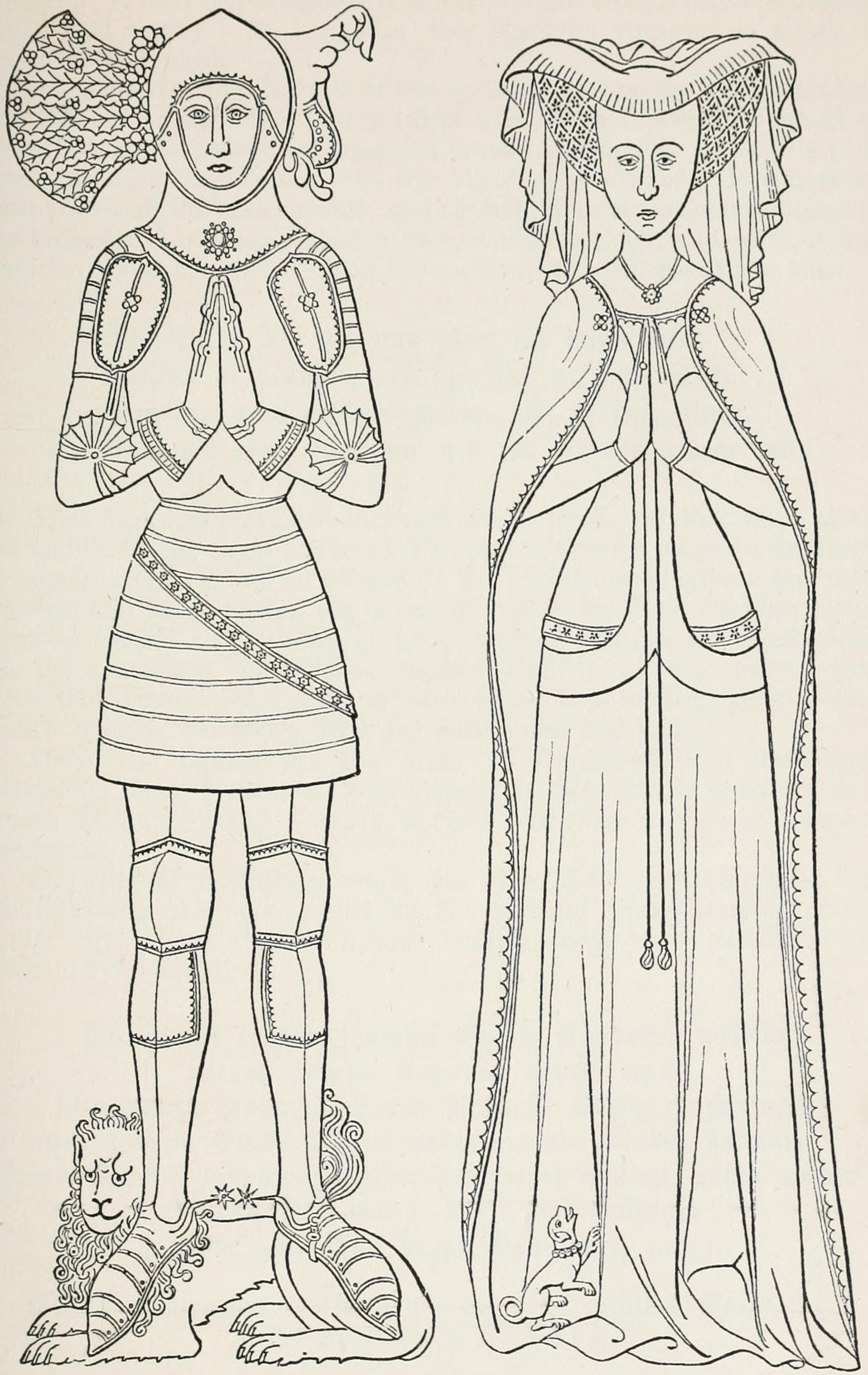 Illustration of the monumental brass of Sir Giles Daubney (died 1445 or 46) and one of his three wives in SS Peter and Paul parish church, South Petherton, Somerset